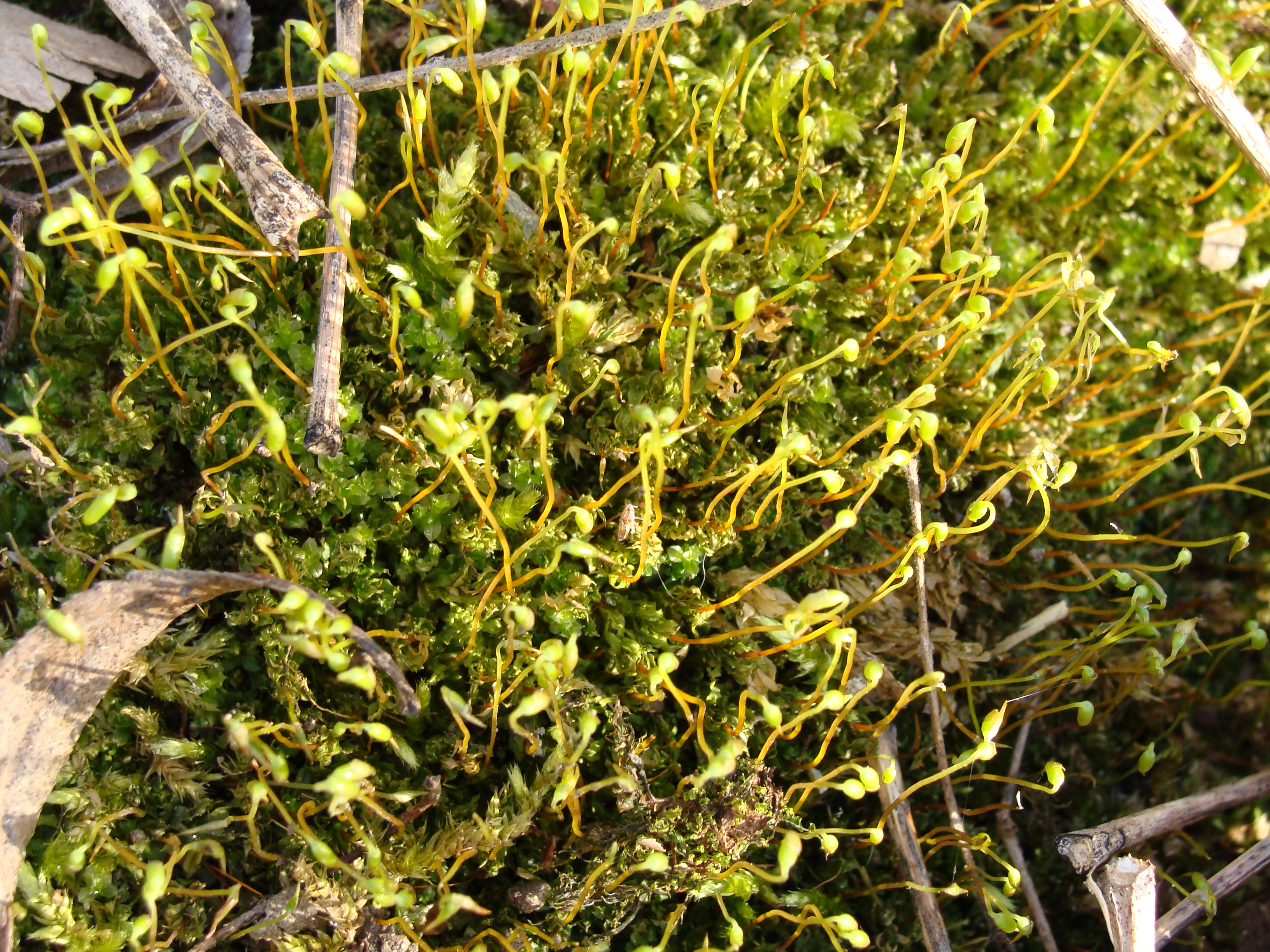 Elkhart, Indiana, United States of America Moss growing in a swamp area.